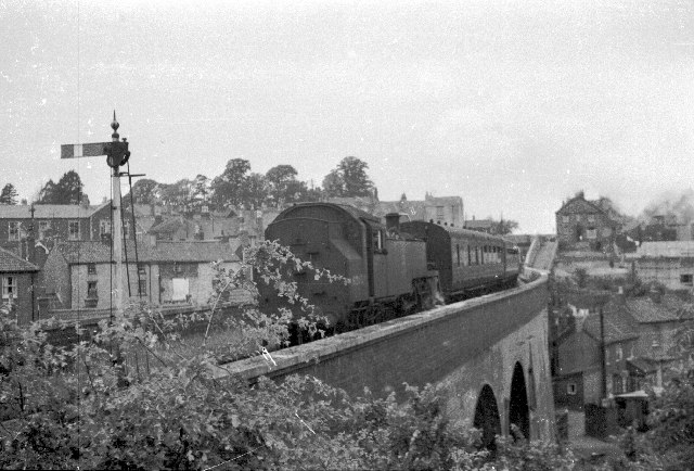 Pill Viaduct. Pill was made famous by Adge Cutler's song 'Pill, Pill I love thee still'. The loco is 82032. The railway was derelict for some years but was reopened to serve Portbury Docks.